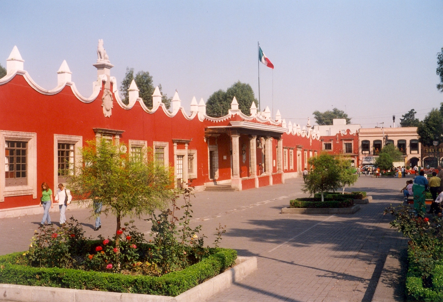 Coyoacán, Ciudad de México, México. Picture taken in fall 1998.